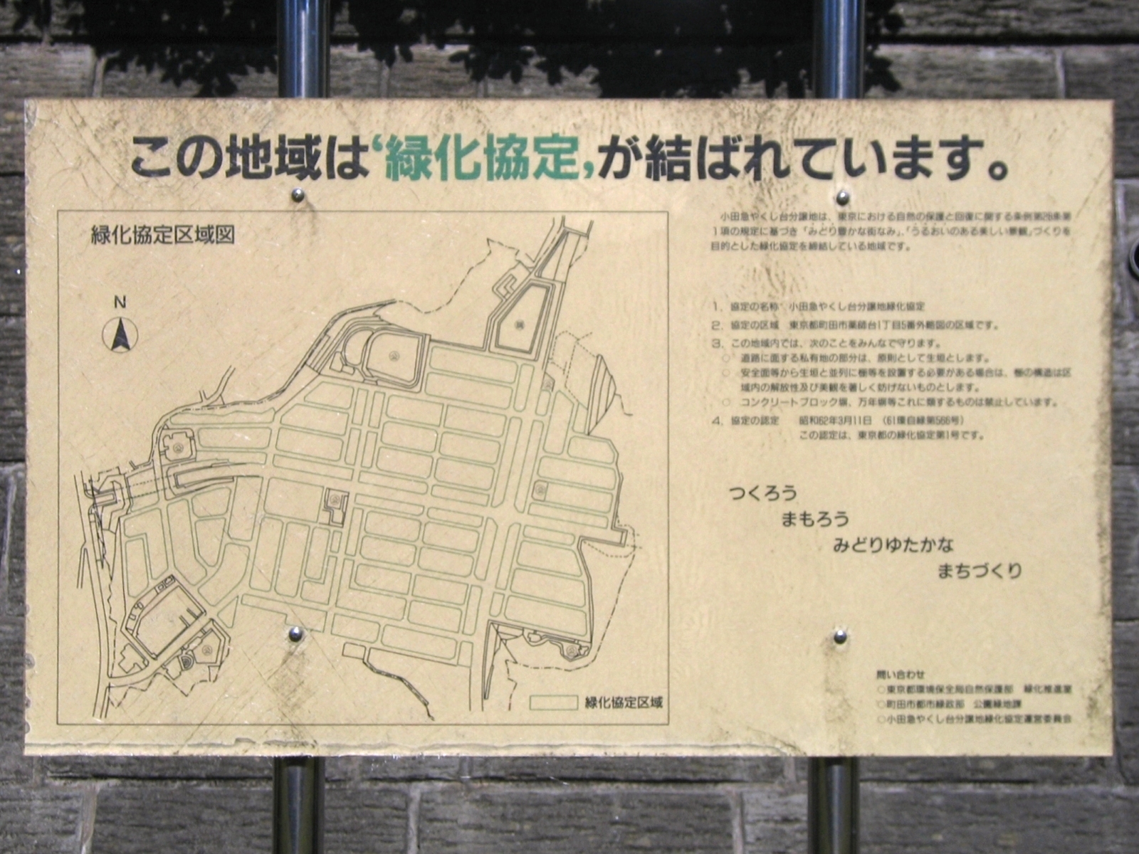 a notice of greening agreement, Yakushidai, Tokyo, Japan